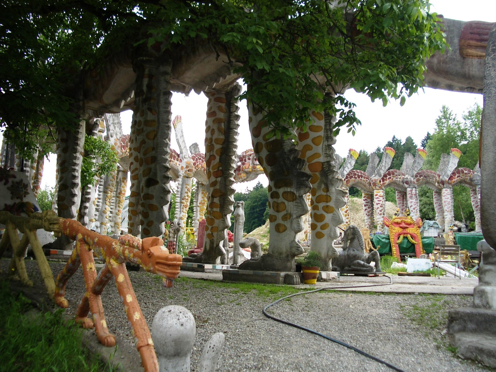 Bruno Weber Exhibition, Spreitenbach AG, Switzerland